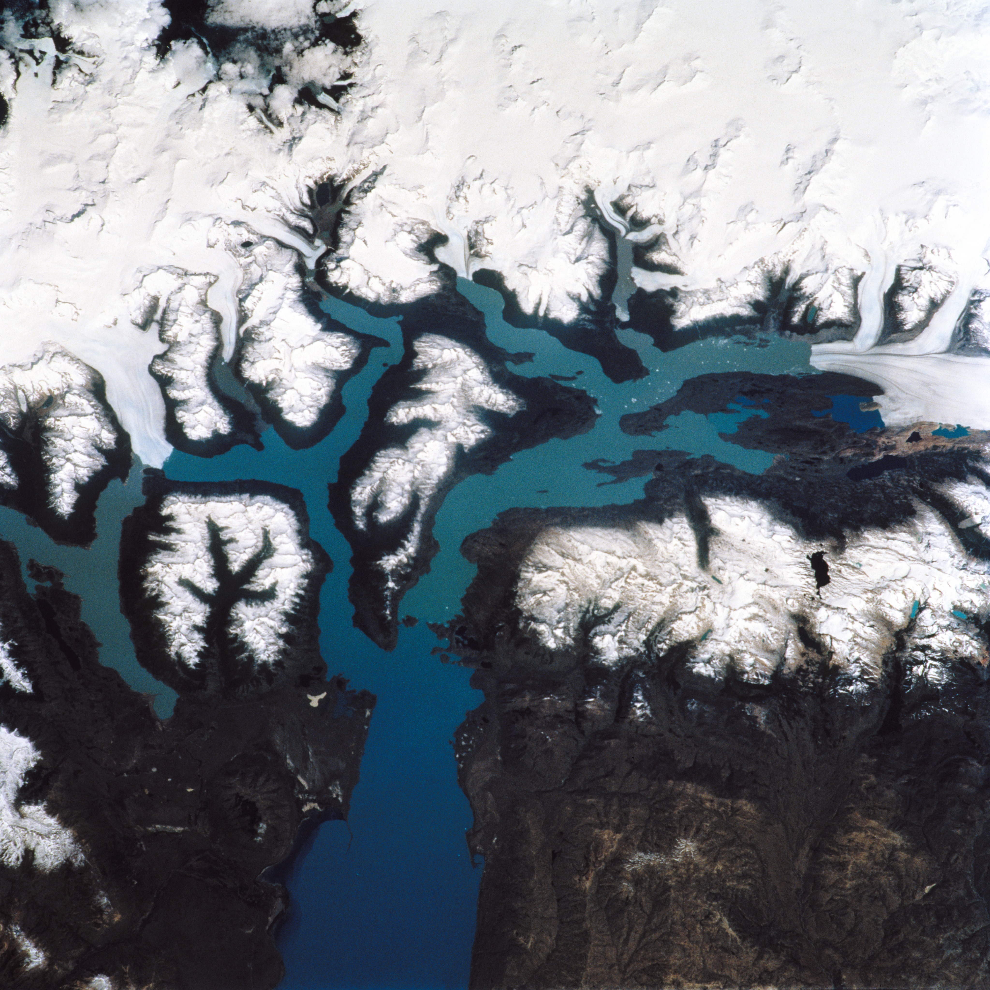 This glacier-fed lake, which caught the eye of the STS-108 crew aboard the Space Shuttle Endeavour, is Lago Argentina, located in Southern Argentina and is part of the Chilean/Argentine national park, Parque Nacional Los Glaciares.